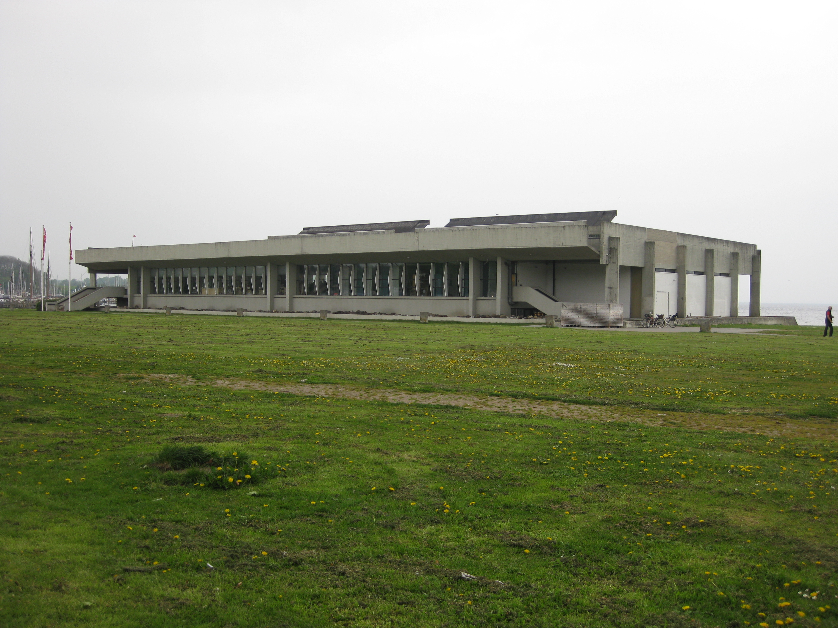 Viking Ship Museum in Roskilde, Denmark